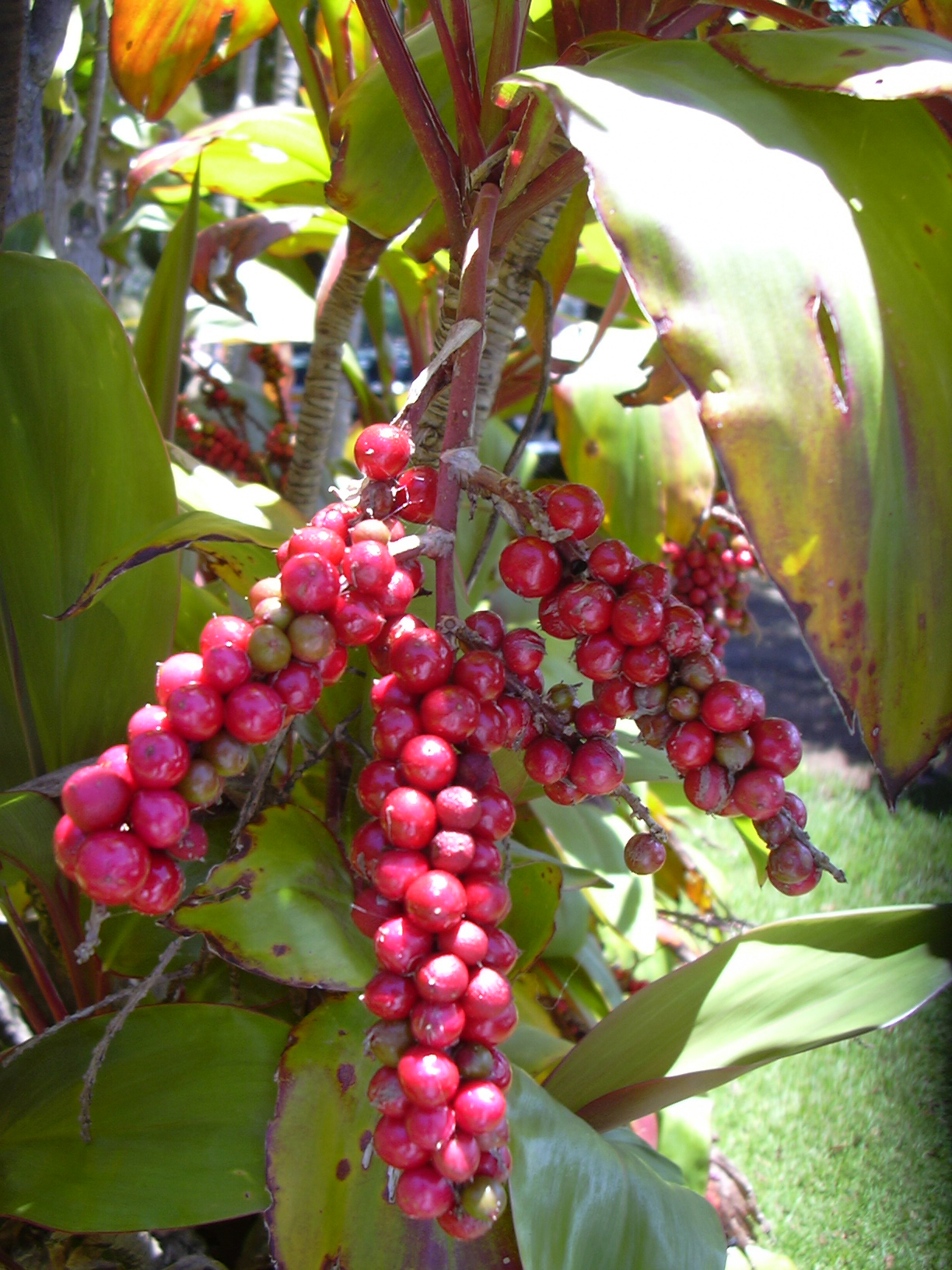 Cordyline fruticosa (fruit). Location: Maui, Makawao